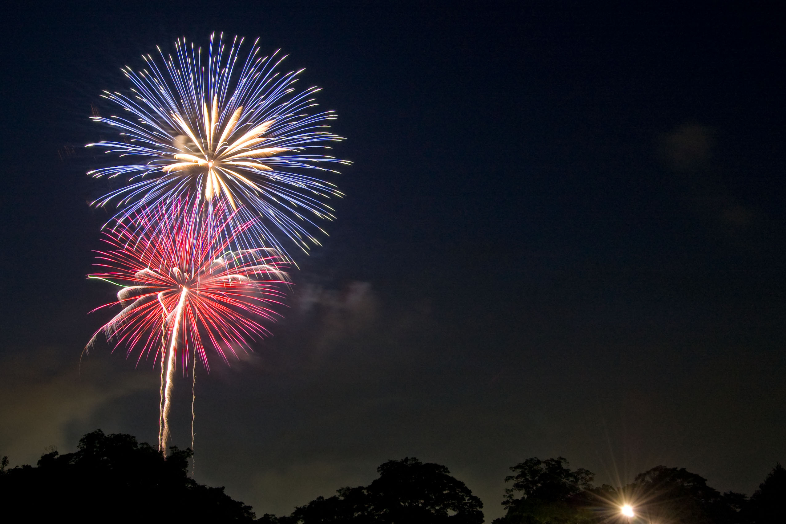 Toyohashi Gion Festival.